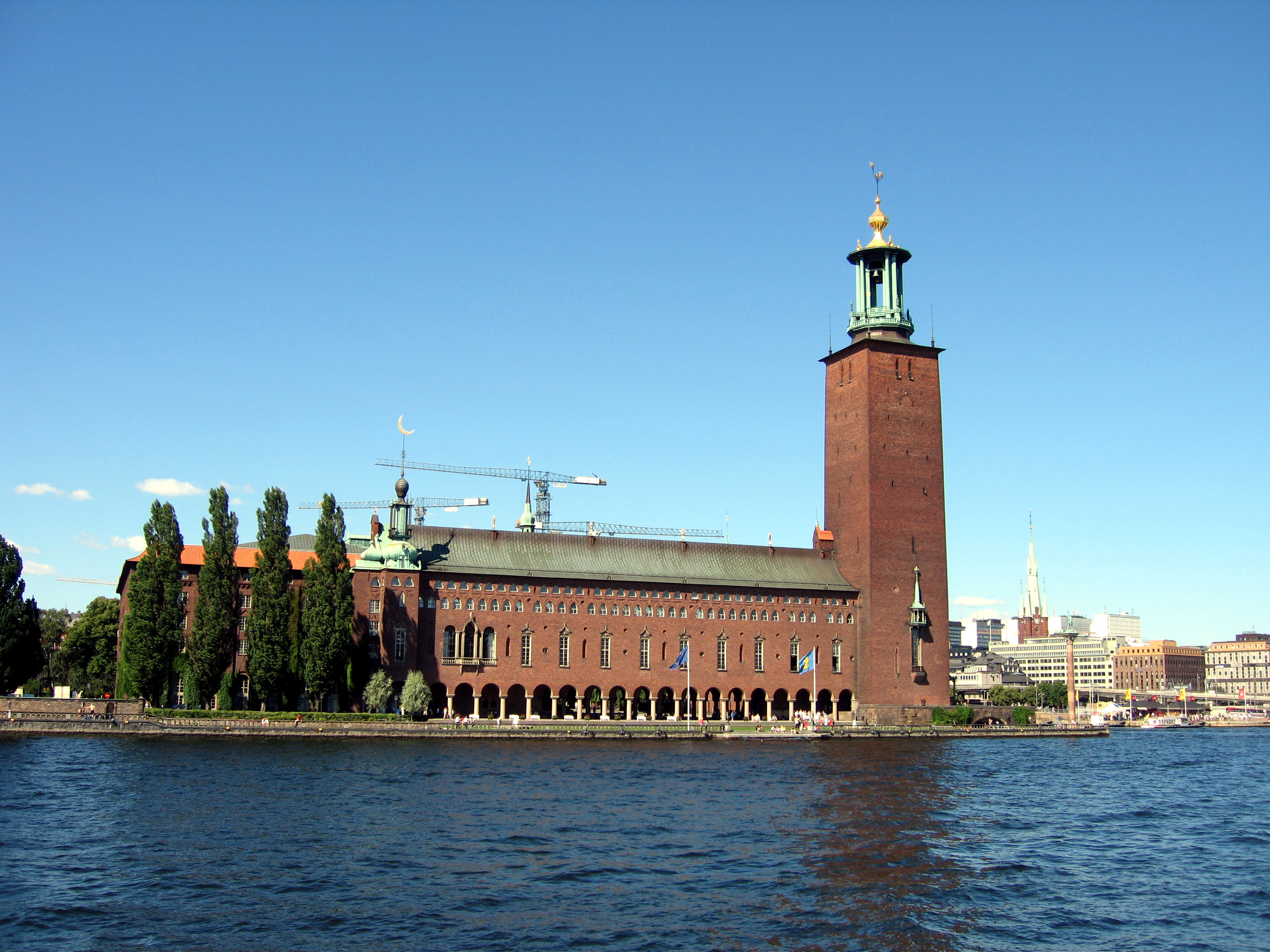 Stockholm City Hall